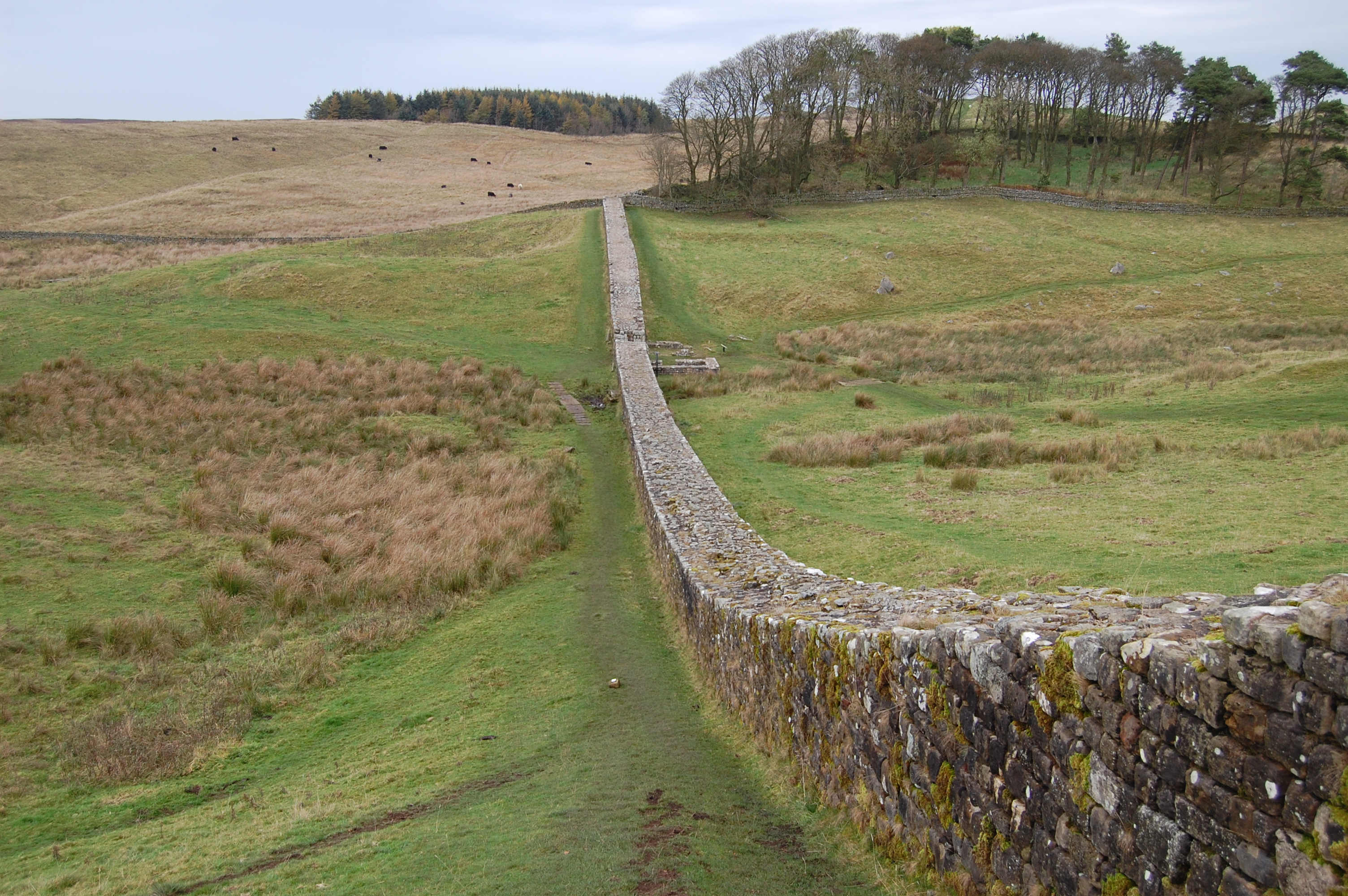 Part of Hadrian's Wall running downhill from the northeast corner of Housesteads Roman Fort.